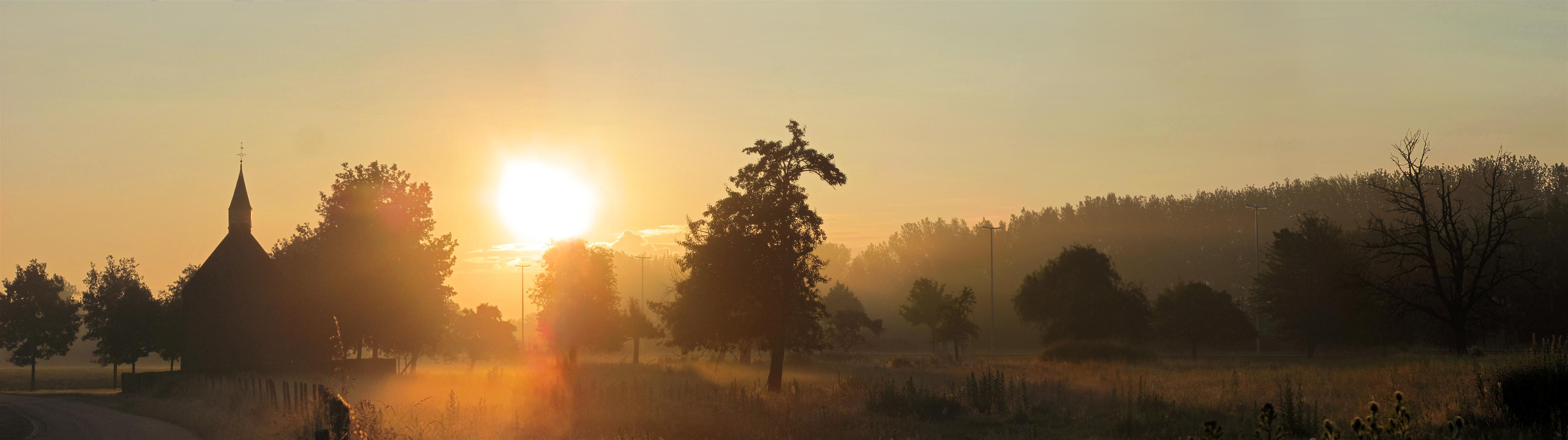 Panorama of the chapel area 'Hemelsveld' in the village of Sint-Joris (Alken). Photo taken on the summer solstice sunrisein june 2012. Originally made by Niele Geypens for use on Not for use by political parties, campaigns, organisations or associated movements other than the Belgian political party 'Groen'.